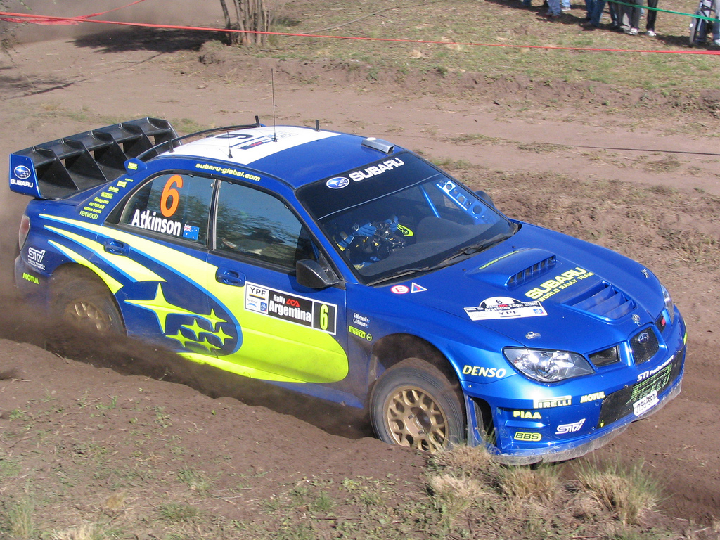 Chris Atkinson driving his Subaru Impreza WRC at the 2006 Rally Argentina shakedown.